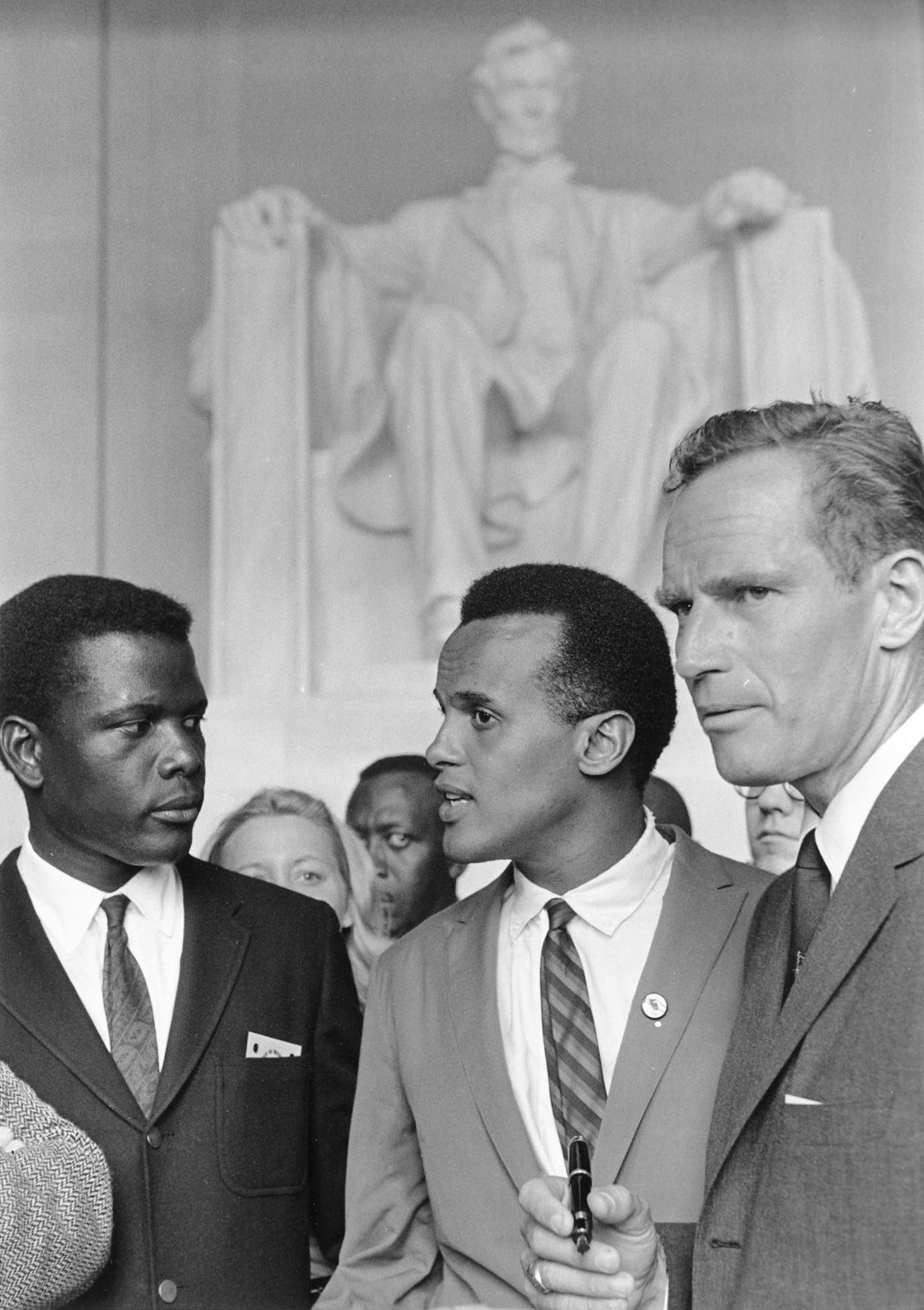 Item from Record Group 306: Records of the U.S. Information Agency, 1900 - 1992